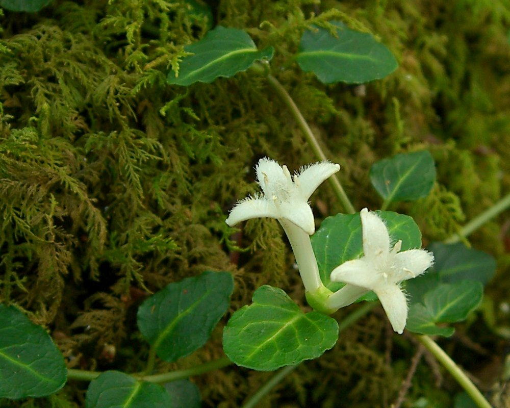 Scientific Name: Mitchella repens L. – Common Name: Partridge Pea – Certainty: positive (notes) – Location: Appalachians; Smokies; CabinCove - Date: 20060609